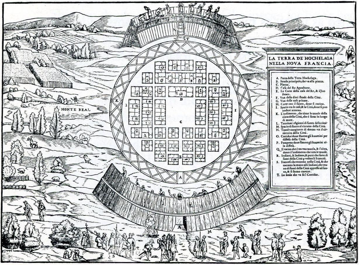 Woodcut engraving of Hochelaga published in Venice by Ramusio. Based on account of Jacques Cartier.